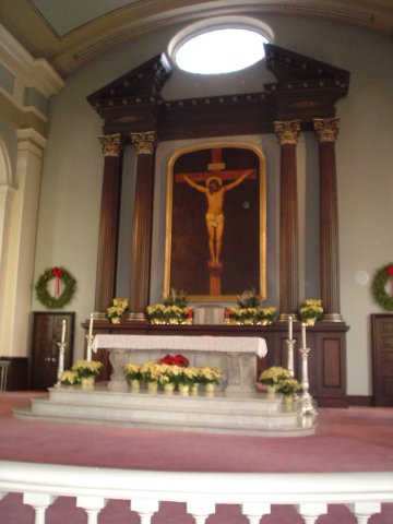 The main altar of the Basilica of St. Louis - better known as the "Old Cathedral" - in St. Louis. I took this photo in December of 2004 JesseG 02:01, Jan 2, 2005 (UTC)